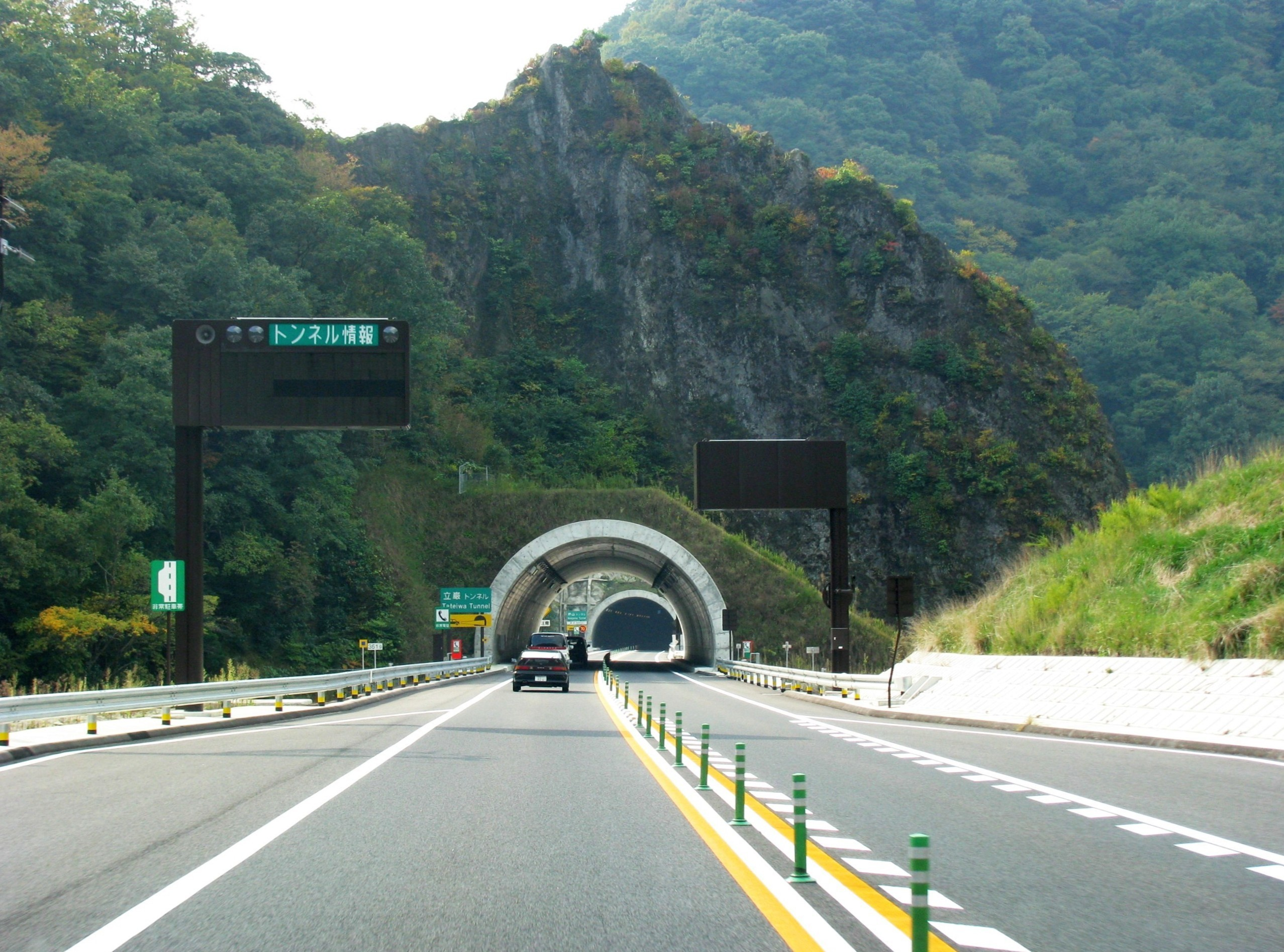 The Tateiwa tunnel of Sanin Expressway. This place is Izumo, Shimane Prefecture, Japan.